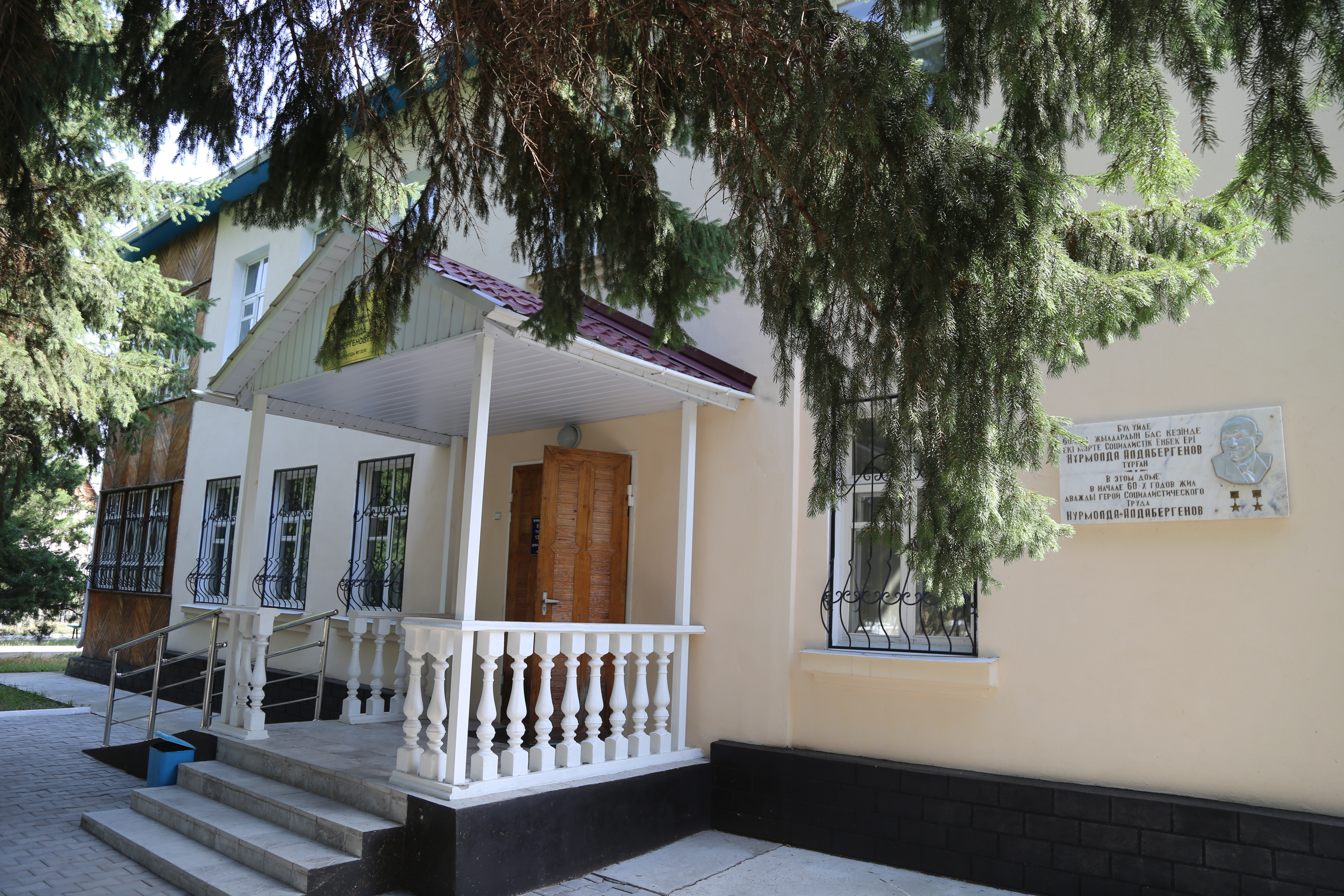 Aldabergenov Museum